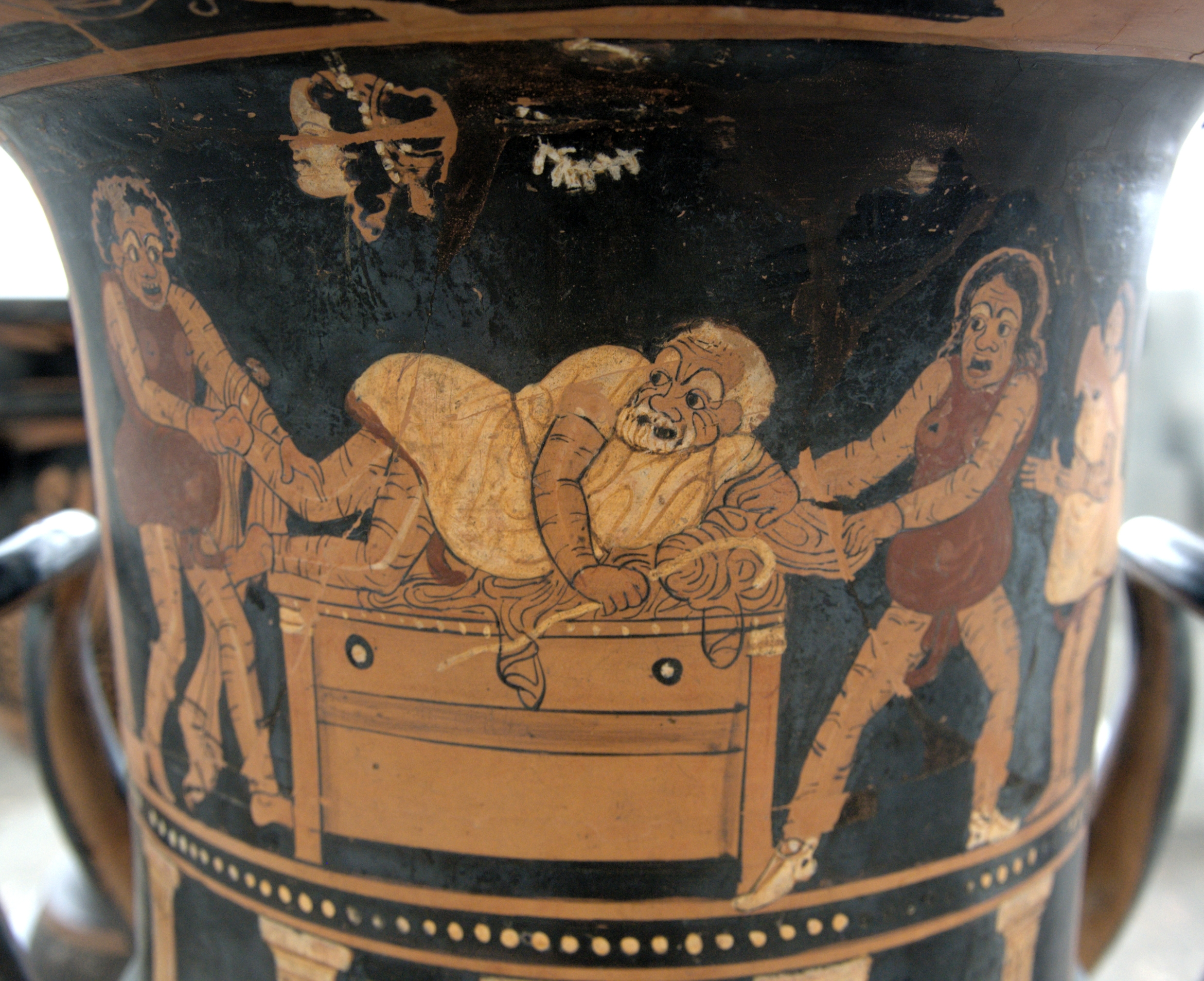 Phlyax scene: three men (Gynmilos, Kosios and Karion) robbing a miser (Kharinos) inside his house. Side A of red-figure calyx-krater made in Paestum, 350–340 BC. From Sant'Agata dei Goti.